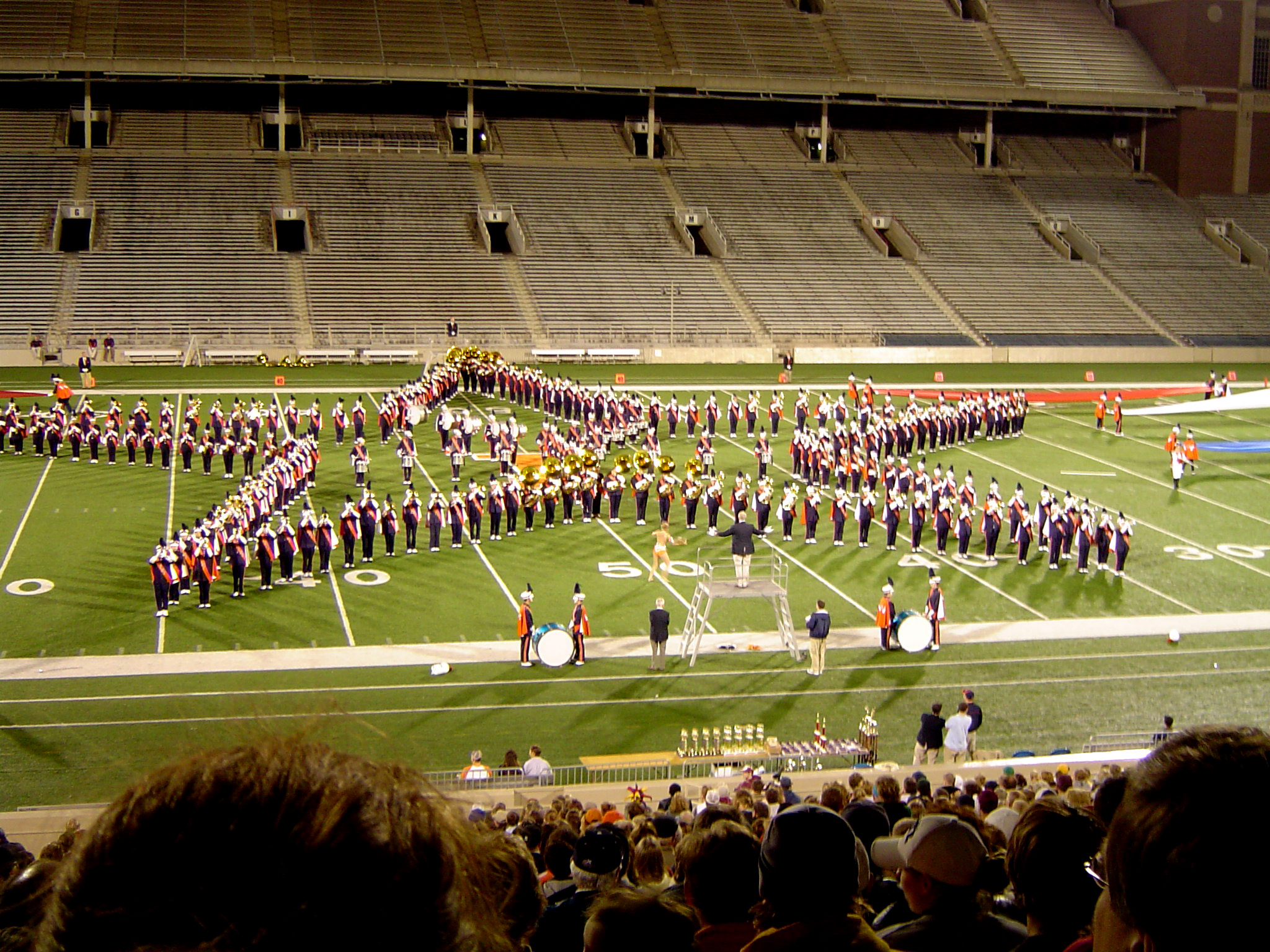 The Marching Illini form a star at the 50-year line at Memorial Stadium.